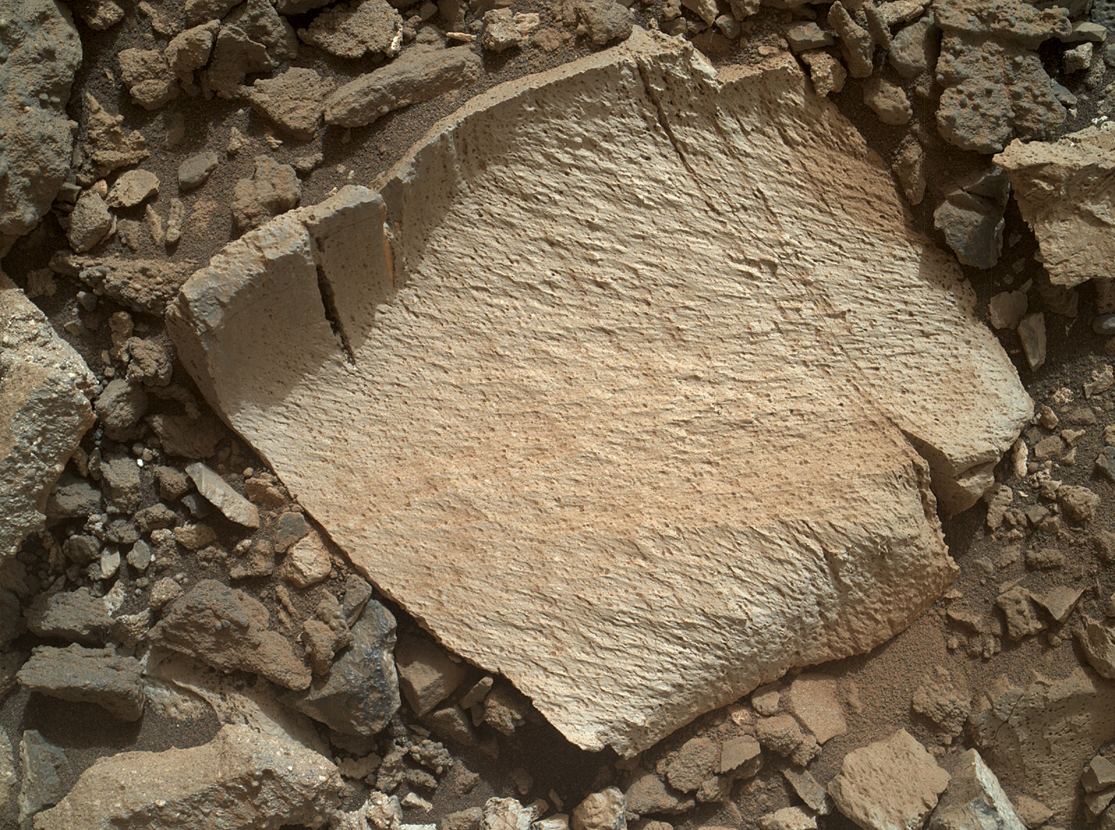 A rock fragment dubbed "Lamoose" is shown in this picture taken by the Mars Hand Lens Imager (MAHLI) on NASA's Curiosity rover. Like other nearby rocks in a portion of the "Marias Pass" area of Mt. Sharp, Mars, it has unusually high concentrations of silica. The high silica was first detected in the area by the Chemistry & Camera (ChemCam) laser spectrometer. This rock was targeted for follow-up study by the MAHLI and the arm-mounted Alpha Particle X-ray Spectrometer (APXS). Silica is a rock-forming compound containing silicon and oxygen, commonly found on Earth as quartz. High levels of silica could indicate ideal conditions for preserving ancient organic material, if present, so the science team wants to take a closer look. The rock is about 4 inches (10 centimeters) across. It is fine-grained, perhaps finely layered, and etched by the wind. The image was taken on the 1,041st Martian day, or sol, of the mission (July 11, 2015).